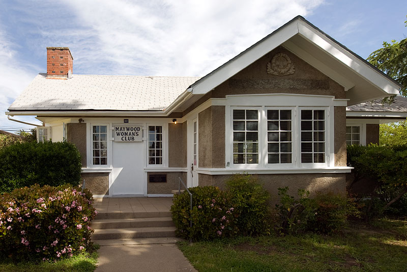 Maywood Woman's Club, 902 Marin Street in Corning, California